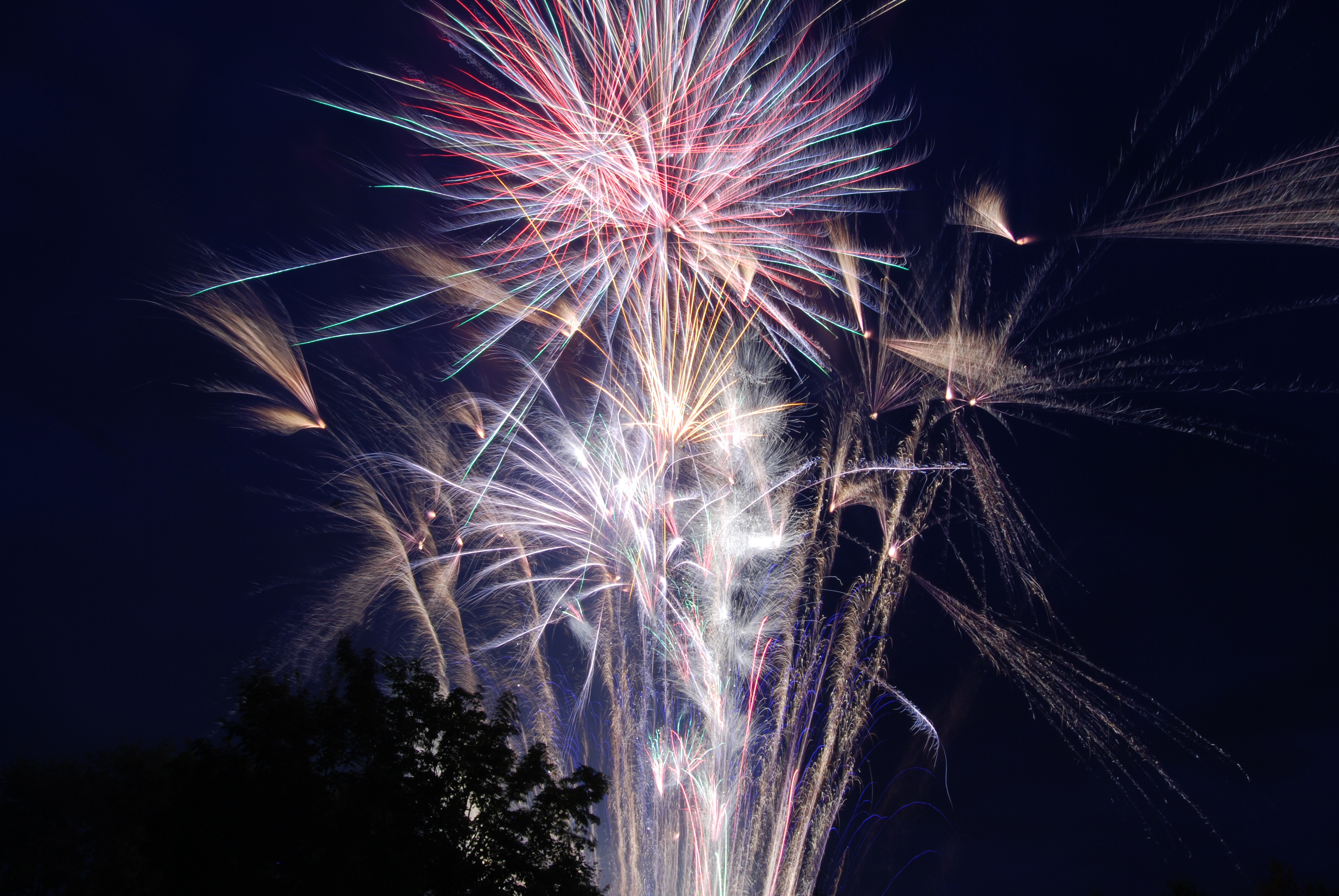 Fireworks on the Fourth of July